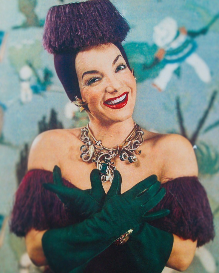 Photo of Carmen Miranda published by the New York Sunday News in 1943.